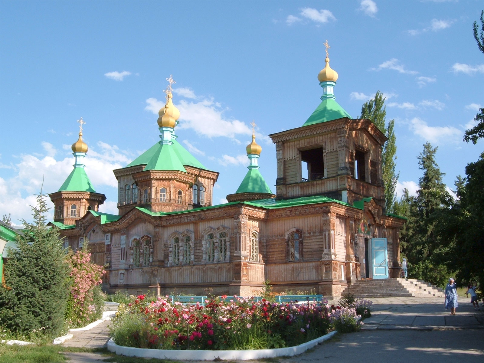 The Russian Orthodox, Holy Trinity Cathedral in Karakol, Kyrgyzstan.